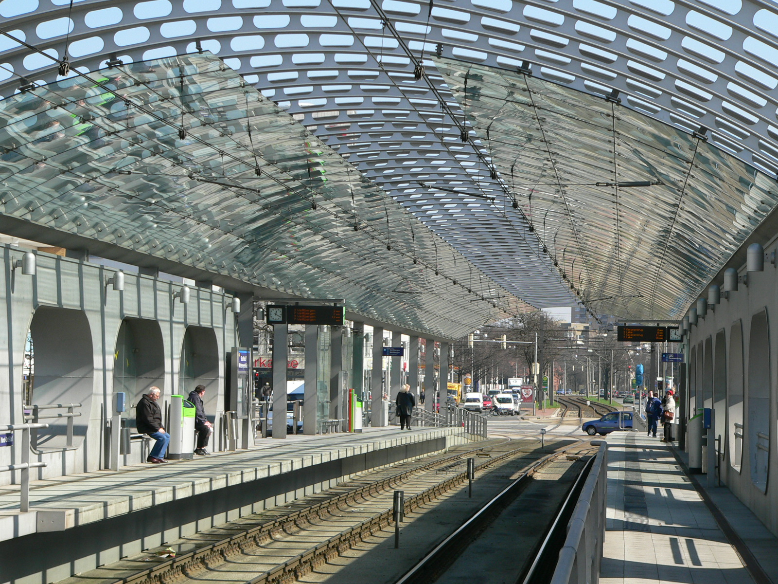 Station Noltemeyerbrücke in Hannover, Germany.